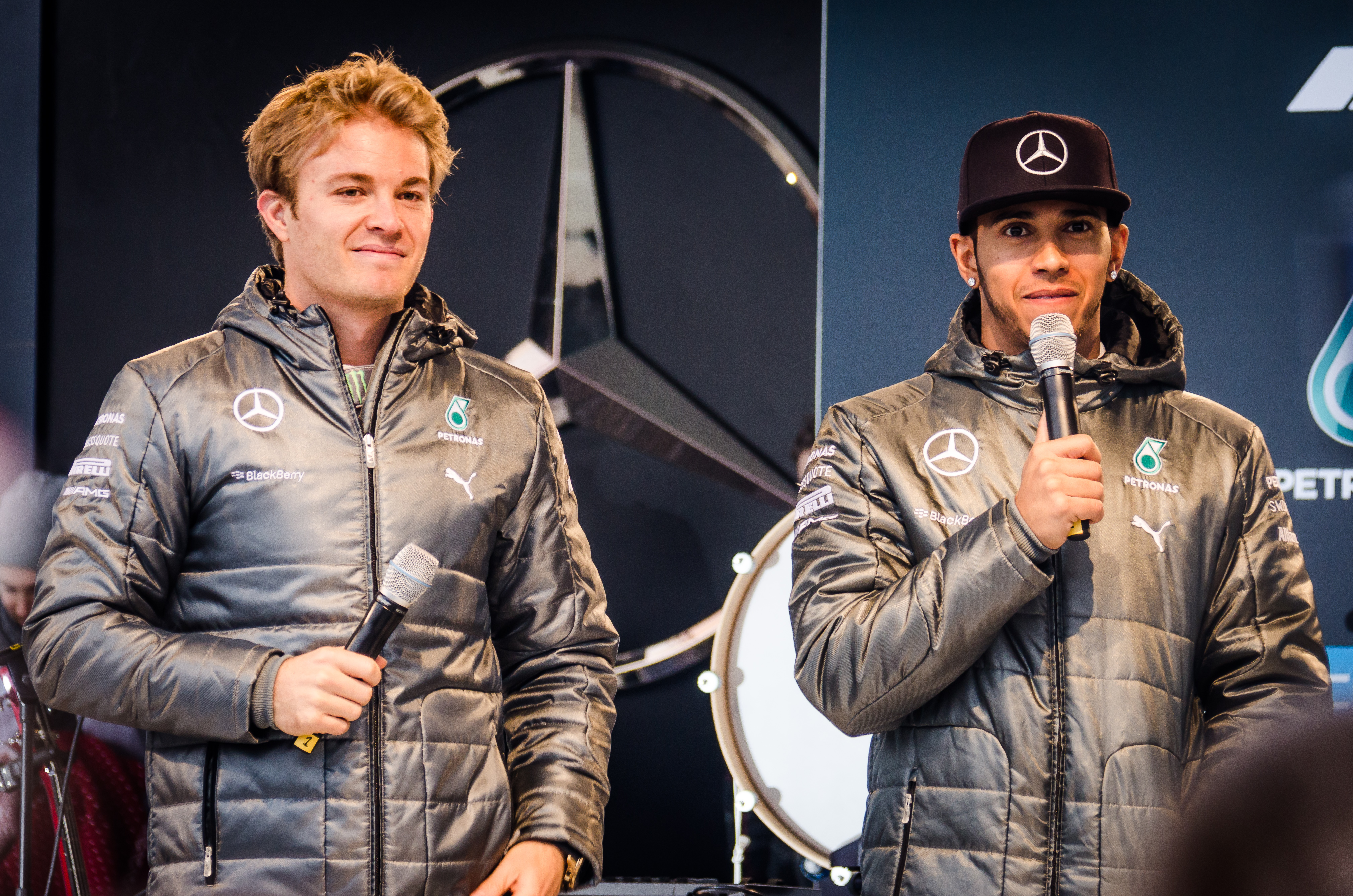 Lewis Hamilton and Nico Rosberg in 2014